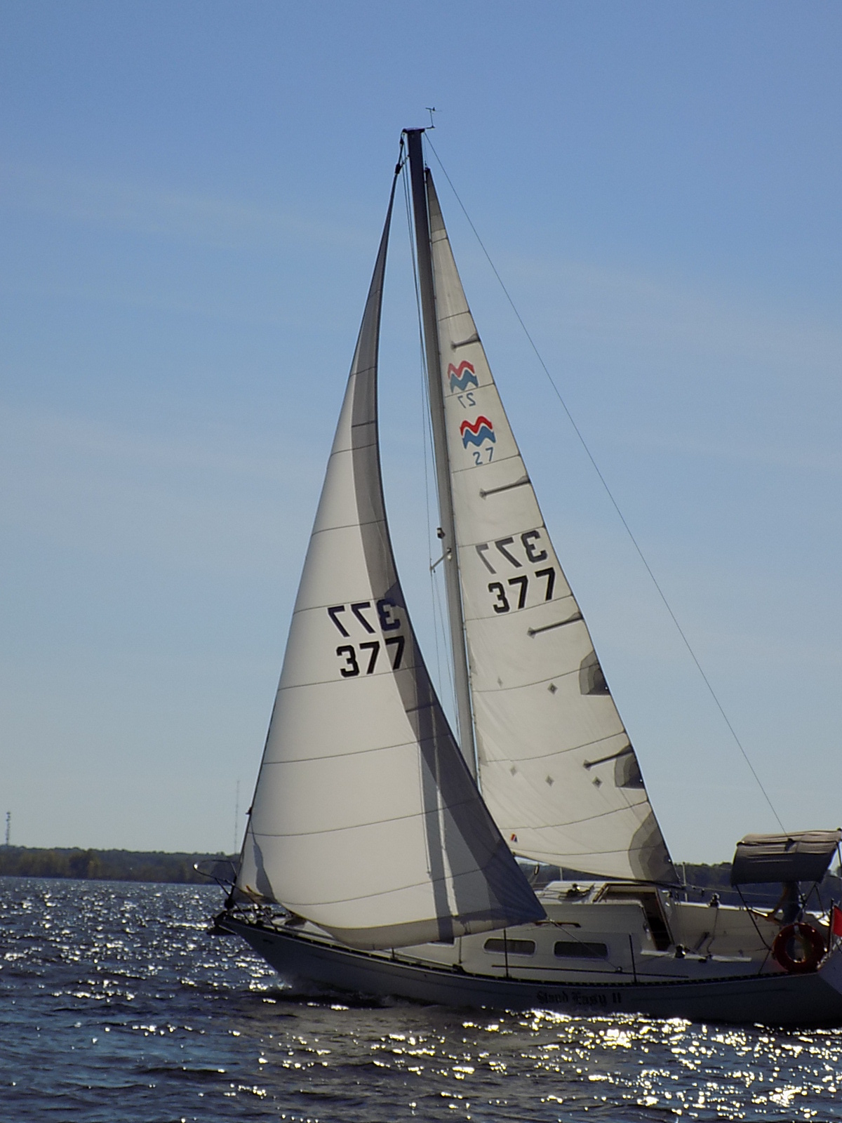 A Mirage 27 sailboat named Stand Easy II on Lac Deschênes, part of the Ottawa River, Ottawa, Ontario, Canada.